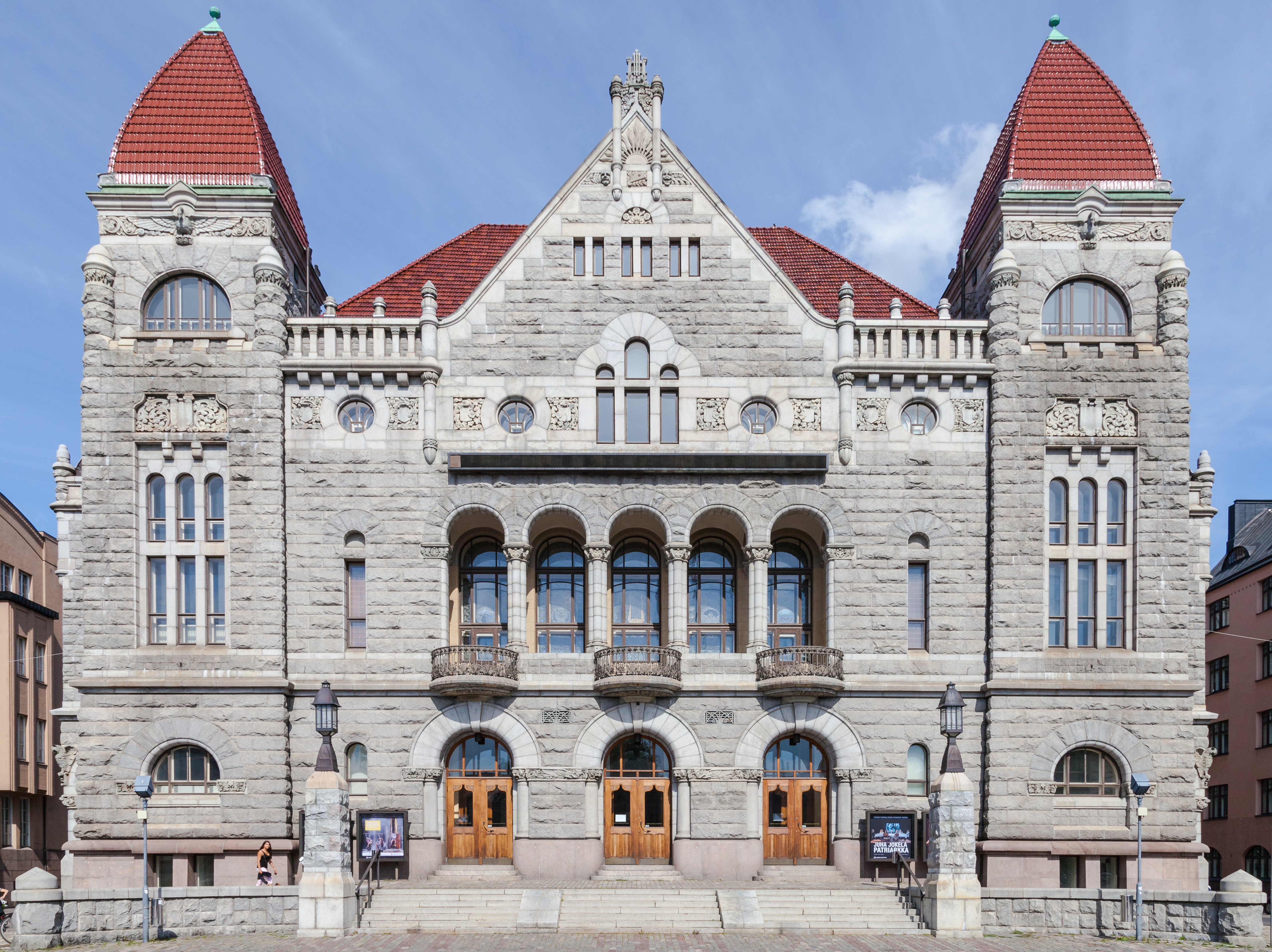 Finnish National Theater, located in the Central Railway Station Square in the heart of Helsinki, Finland. The building as founded in the 1860s and is the oldest professional theather in Finnish.